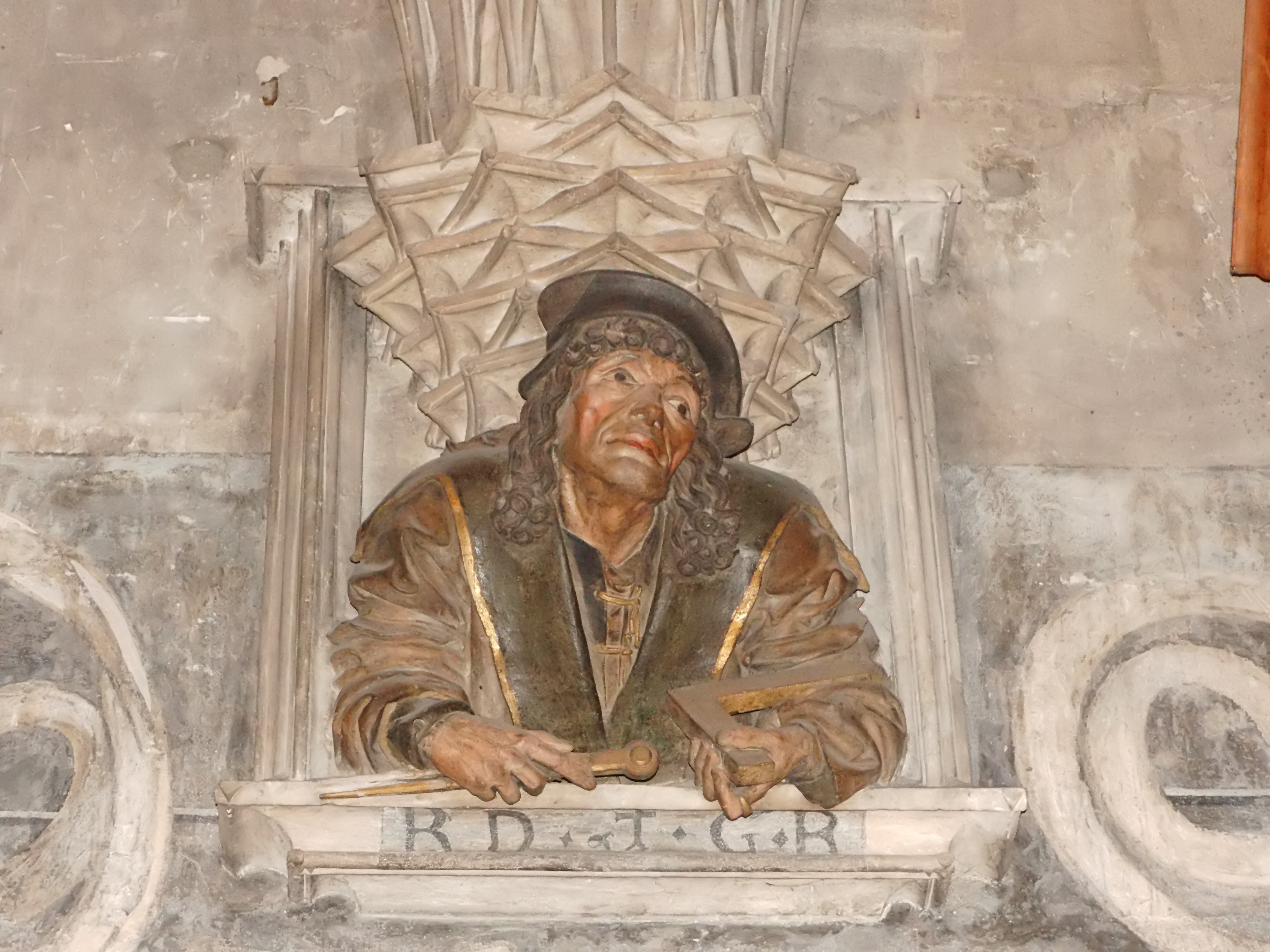 Portrait of Anton Pilgram in the Stephansdom in Vienna, Austria